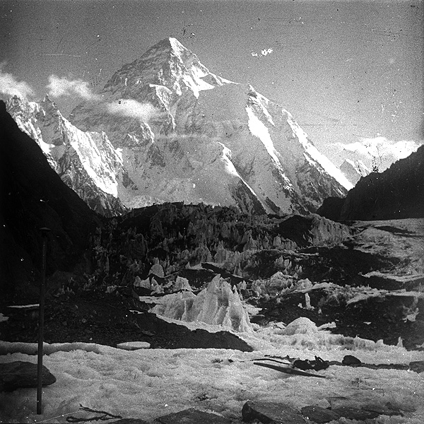 First photo of K2 summit taken by Jules Jacot Guillarmod in 1902 at 6:15am.